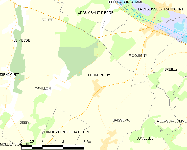 Map of French municipality Fourdrinoy